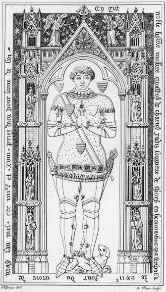 Brass tomb effigy of French knight Geoffroi II de Charny, who died in 1398, son of Geoffroi I of Charny (died 1356).